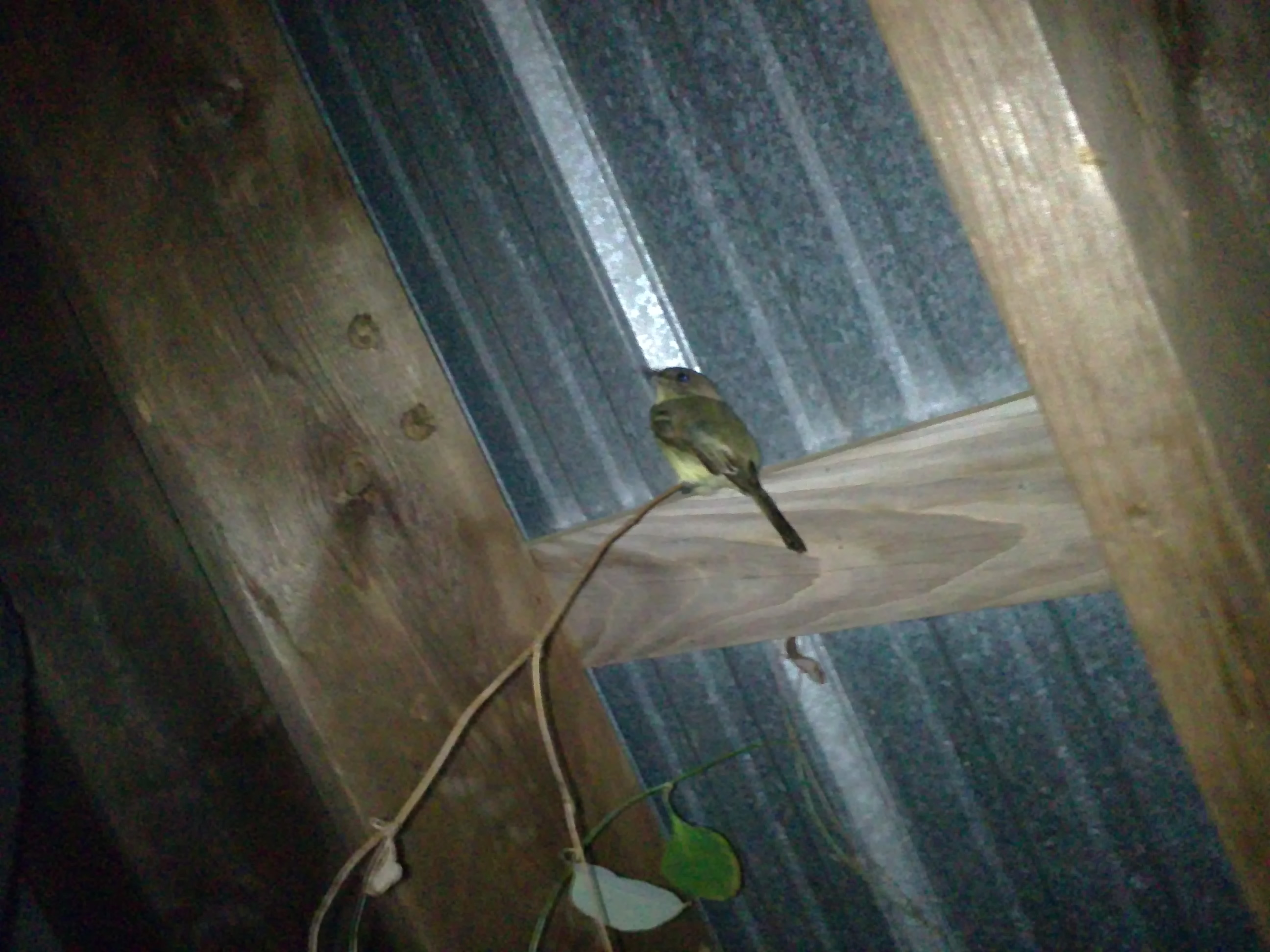 This is an acadian flycatcher that took up residence in my mower shed. This picture was taken in the state of Georgia on December 1st, which suggests this bird decided to forego migration this year. The bird has been staying in the shed nightly since early summer.